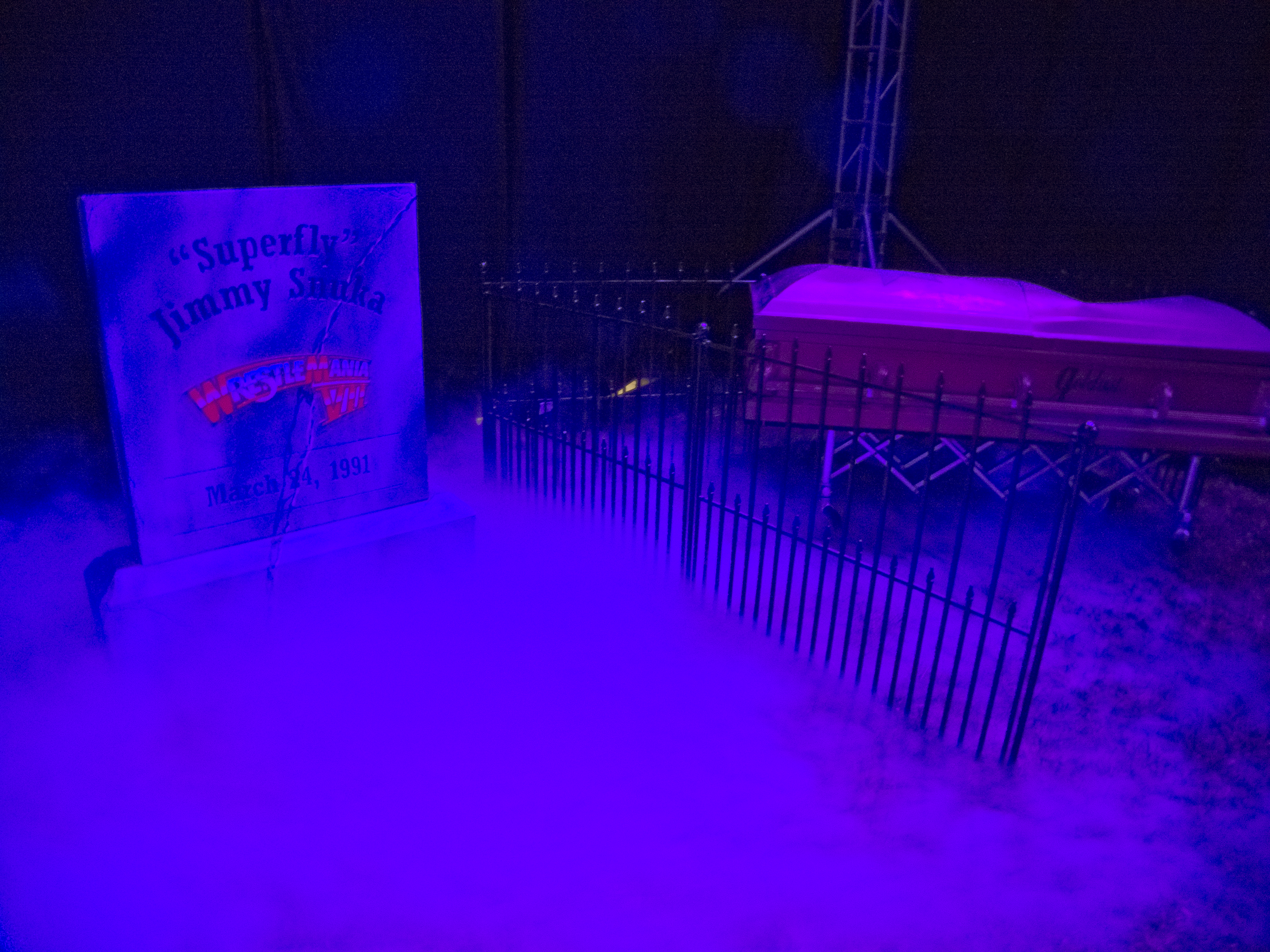 The Undertaker's Graveyard @ Axxess